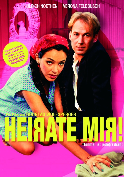 Filmposter